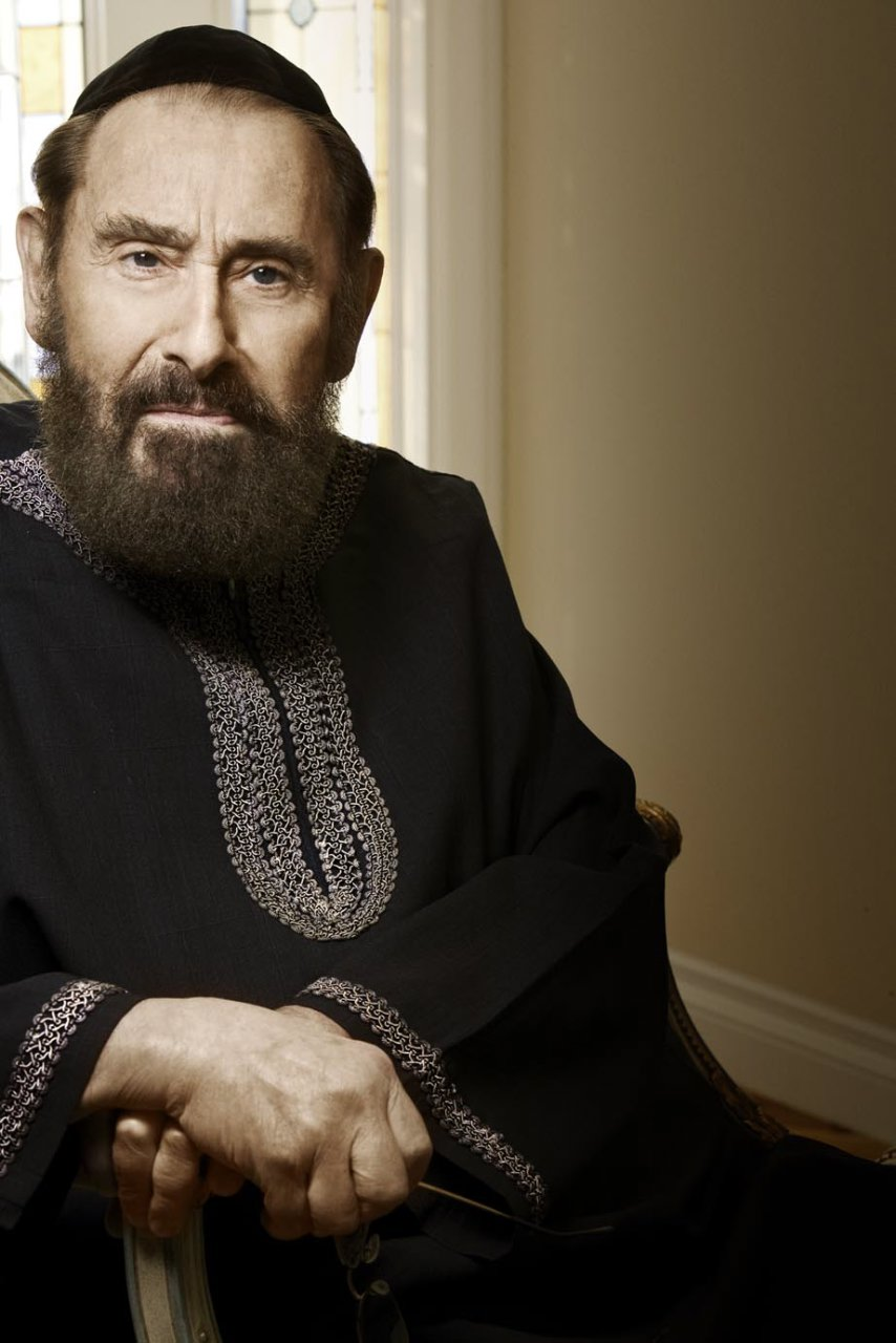 Rav Phillip Berg